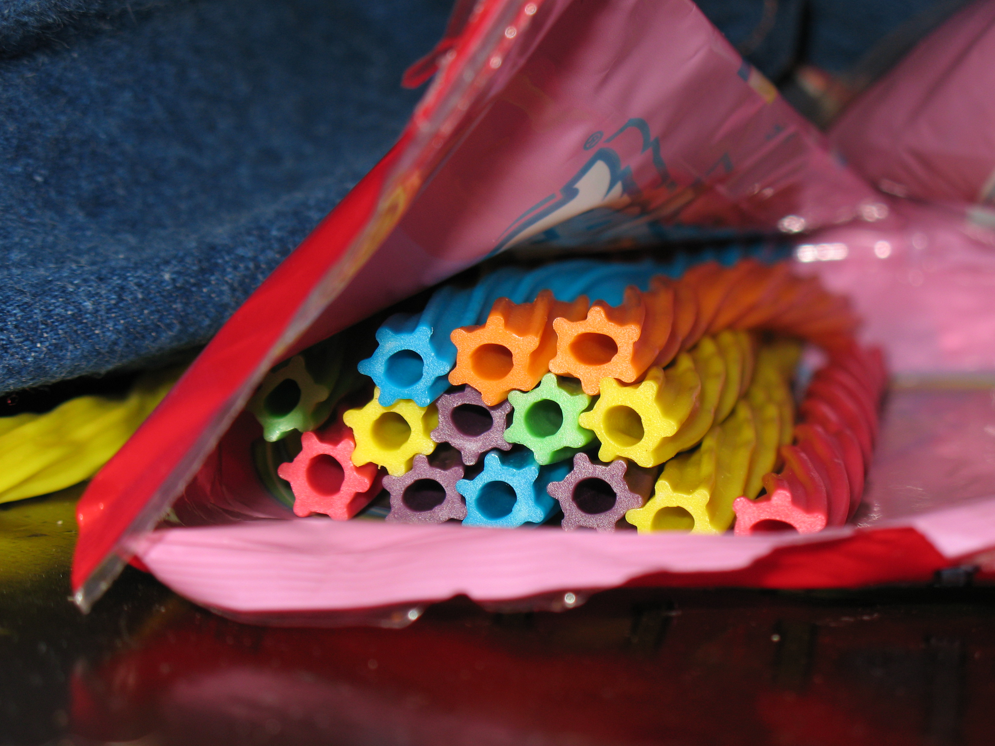 Twizzlers candy by The Hershey Company, USA